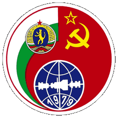 Soyuz 33 logo